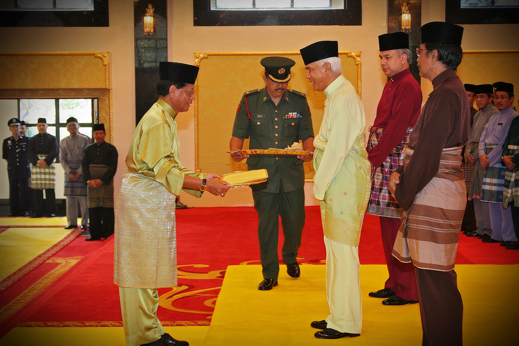 The Sultan of Perak, Sultan Azlan Shah and the Raja Muda, Raja Nazrin Shah at an investiture ceremony